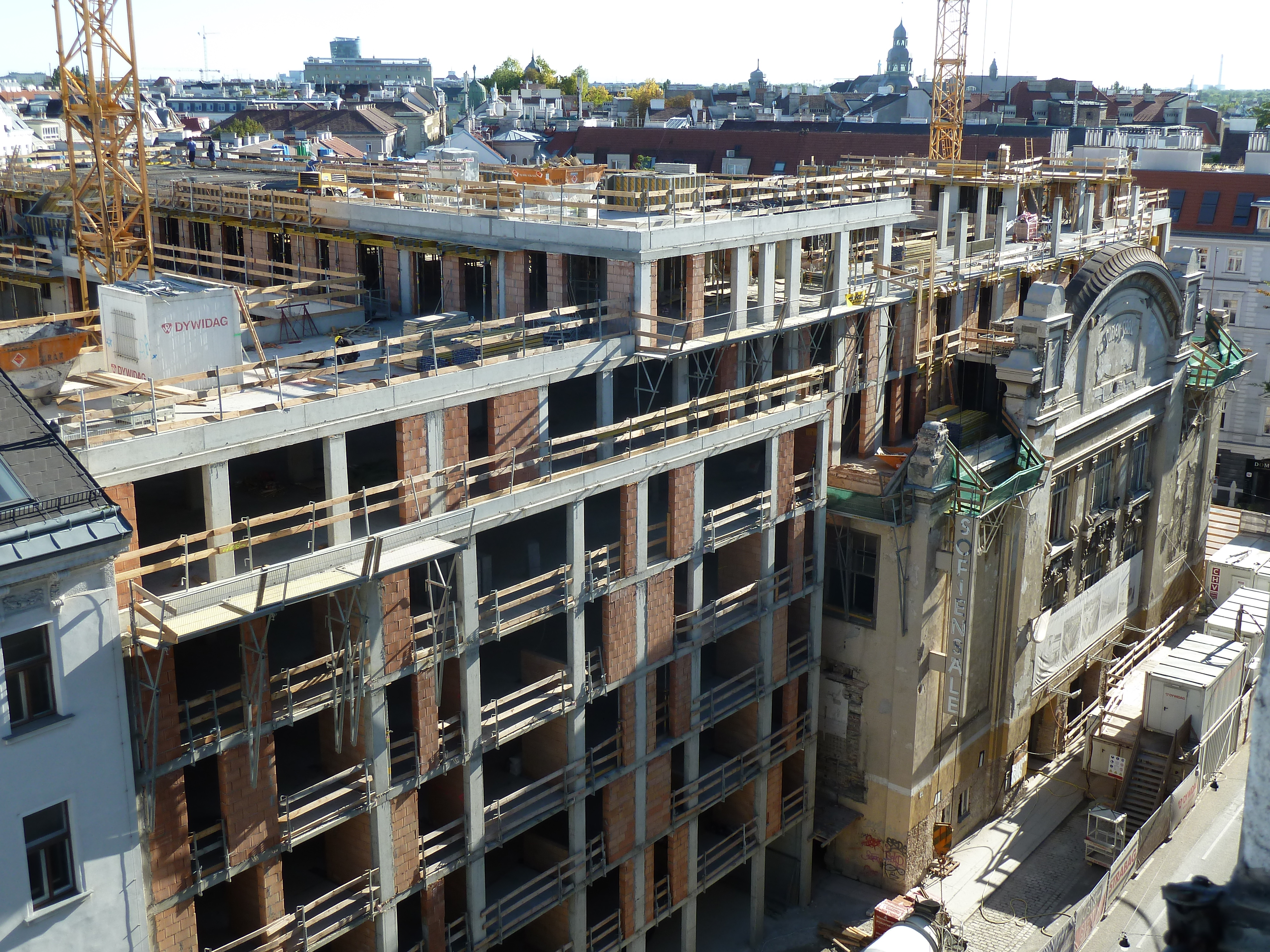 Sofiensaal Neubau 2012b